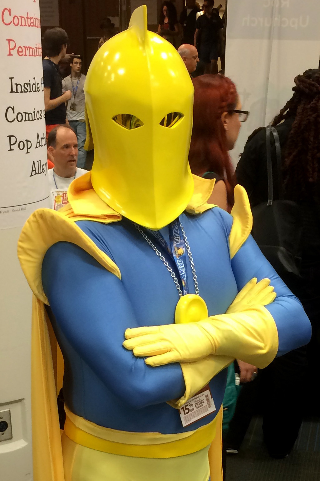 Flash Photo Casual Cosplayer cosplaying as Doctor Fate (from DC Comics) at Dragon Con 2014.